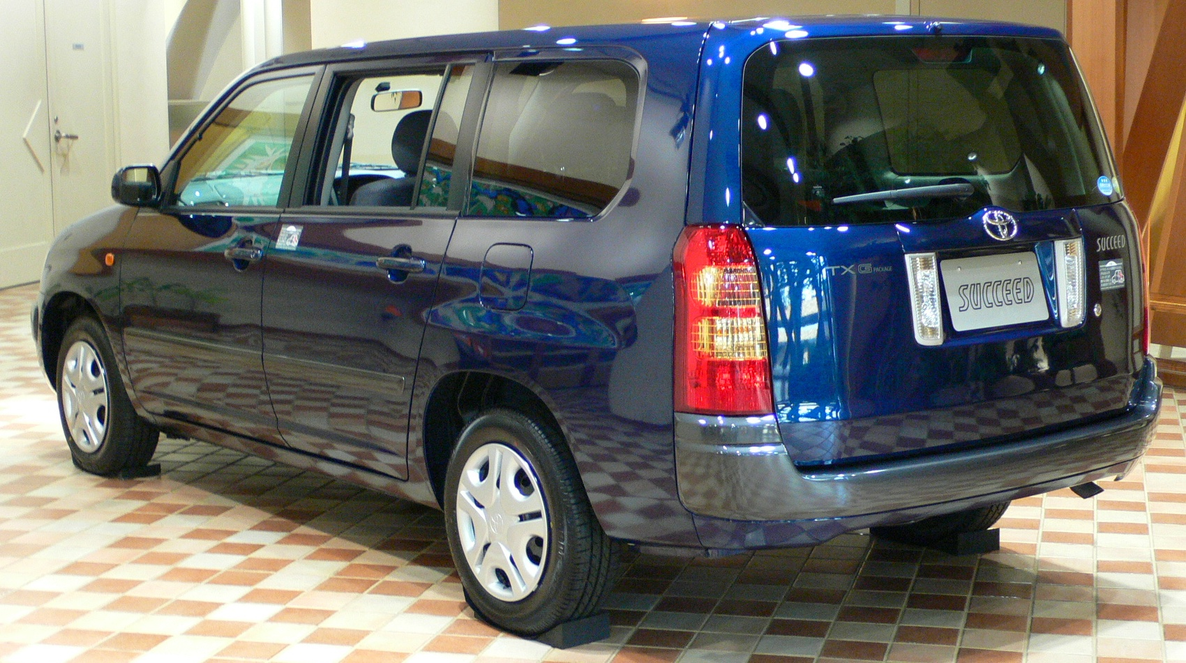 Toyota_Succeed (Wagon) photographed in the Showroom of Toyota (Amlux)